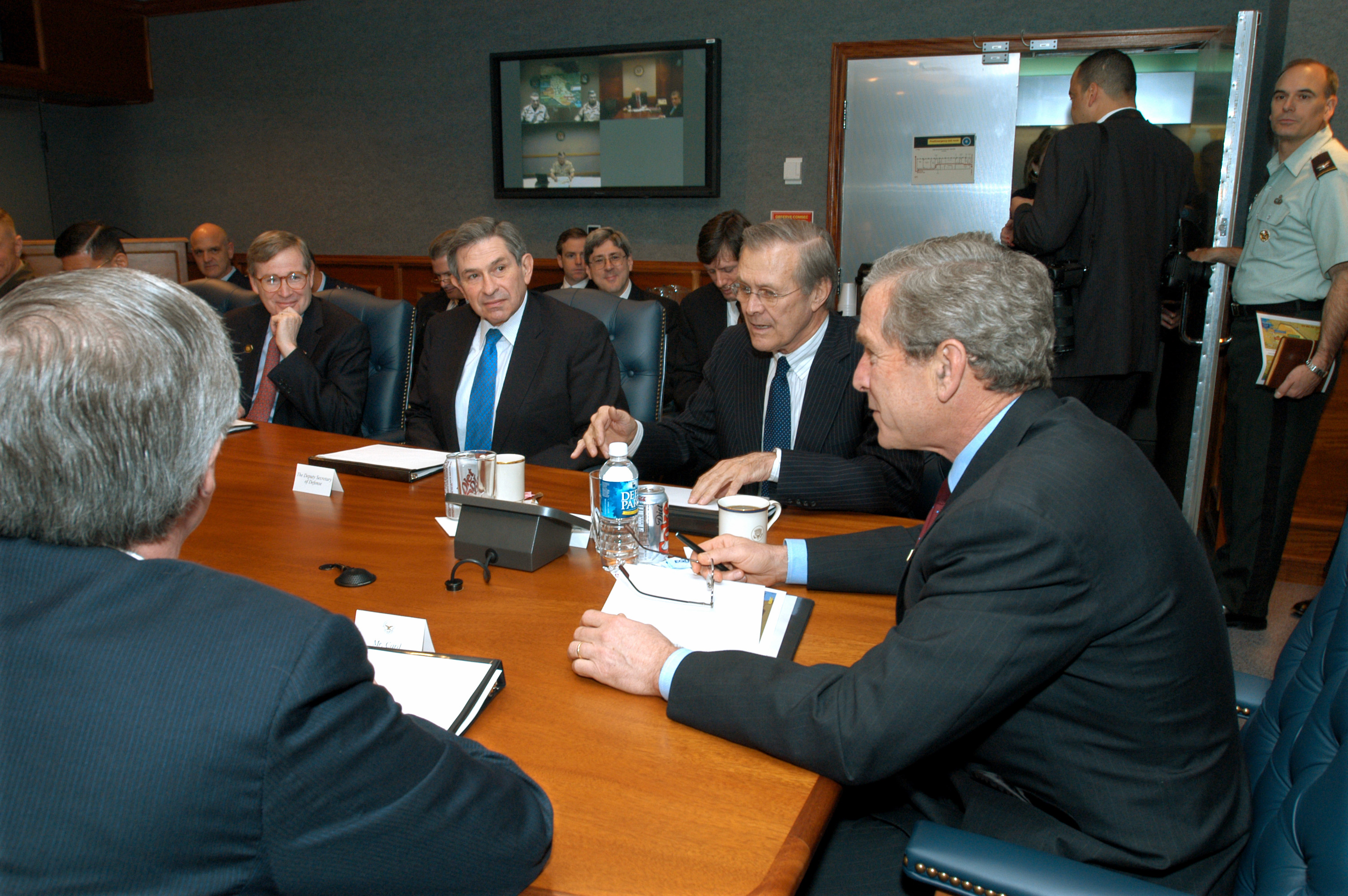 Arlington, Va., (Mar. 25, 2003) -- The Honorable Donald H. Rumsfeld, Secretary of Defense (2nd from right), introduces President George W. Bush (right) to participants at a briefing held in the Pentagon. The President went to the Pentagon to meet with senior members of the Department of Defense and to announce his $74.7 billion wartime supplemental budget request. Once appropriated by Congress, the money will pay for direct costs of Operation Iraqi Freedom and the continuing global war against terror. DOD photo by R.D. Ward. (RELEASED)